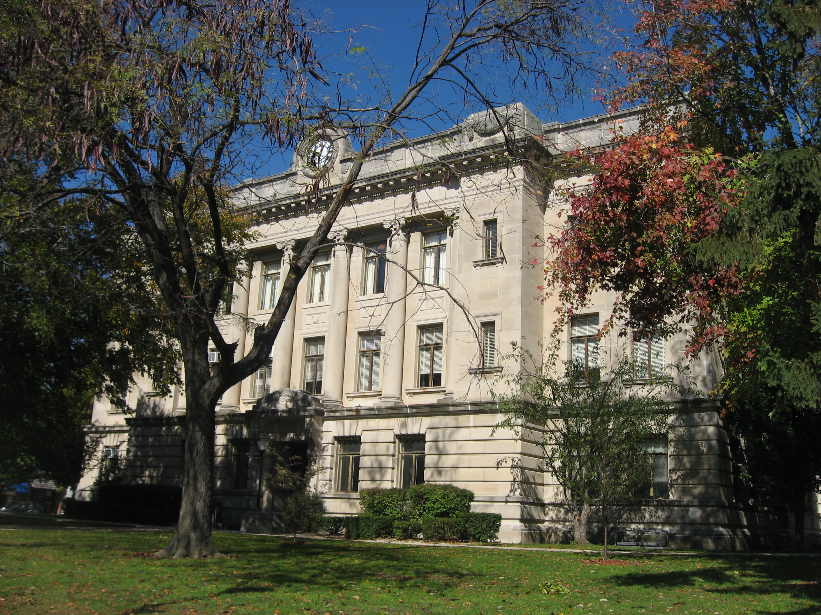 Southern façade of the Sullivan County Courthouse, located on Courthouse Square in downtown Sullivan, Indiana, United States. Built in 1928, it is listed on the National Register of Historic Places.